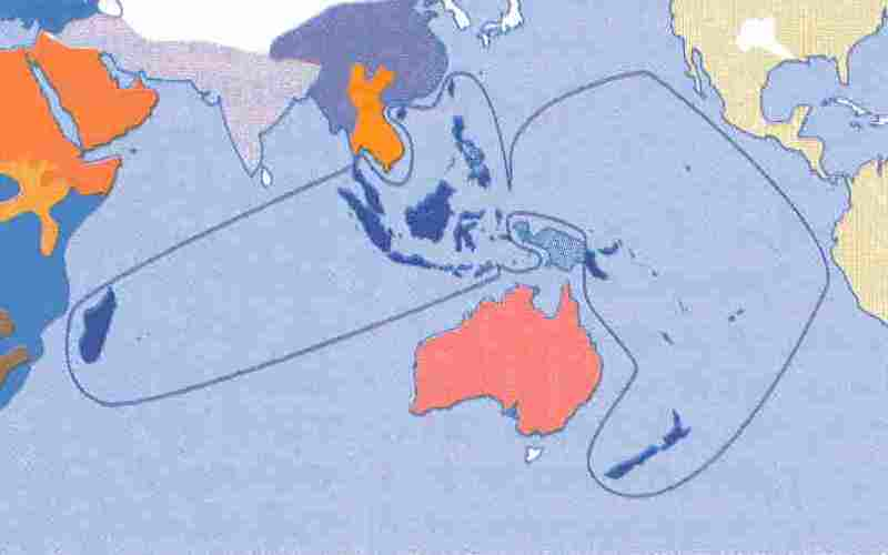 Map of the Austronesian language familyThis pieced Pacific-centered map needs to be replaced with one based on File:Blank map of the world (Robinson projection) (162E).svg or File:Indo-Pacific biogeographic region map-en.svg.